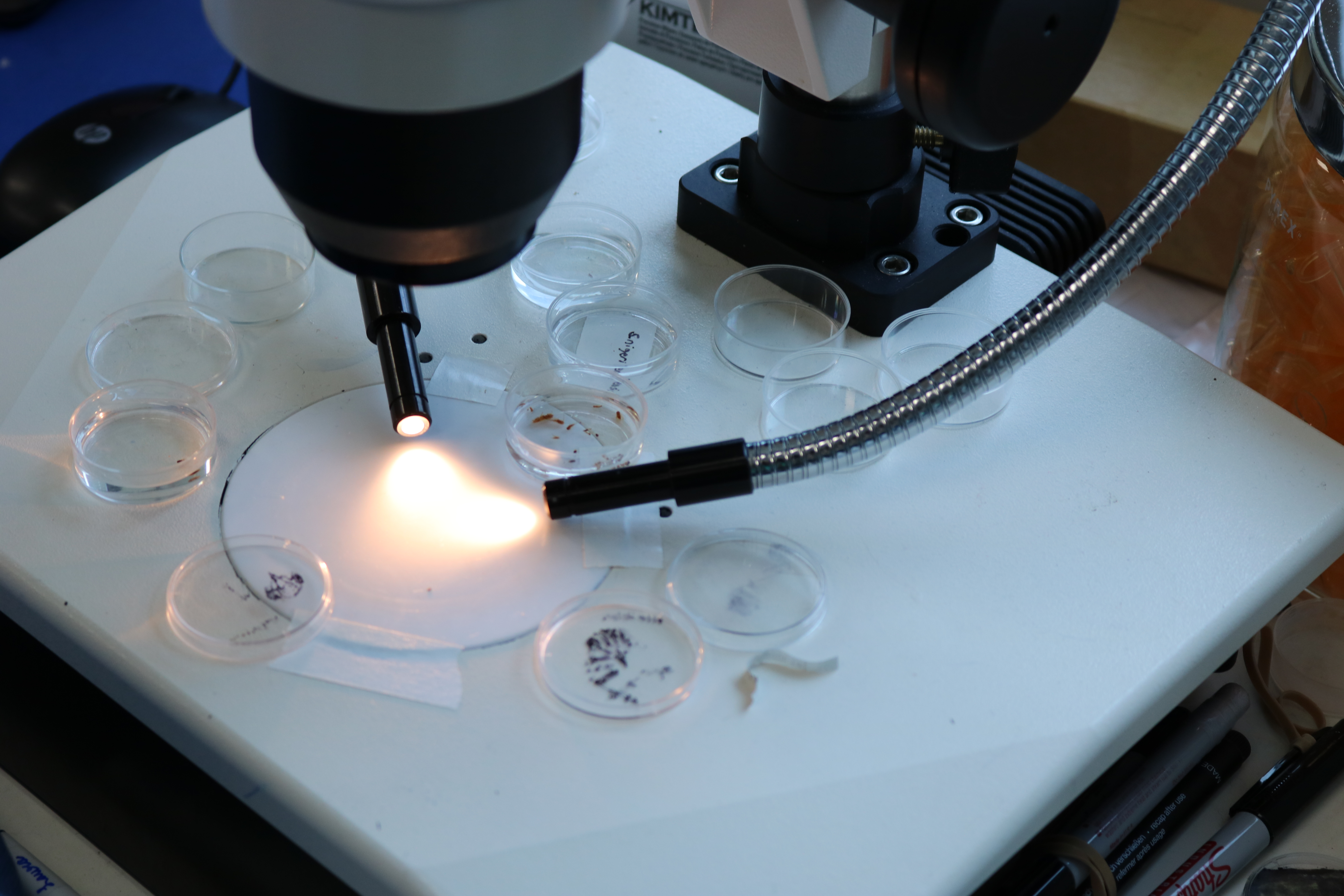 A dissecting microscope and mosquito specimens used for malaria and other vector research. Credit: NIAID